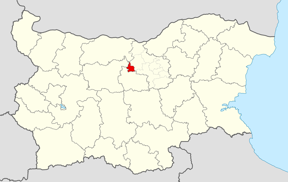 Location map of Suhindol Municipality within Bulgaria and Veliko Tarnovo Province. Equirectangular projection, N/S stretching 130 %. Geographic limits of the map: N: 44.4° N S: 41.1° N W: 22.1° E E: 28.9° E